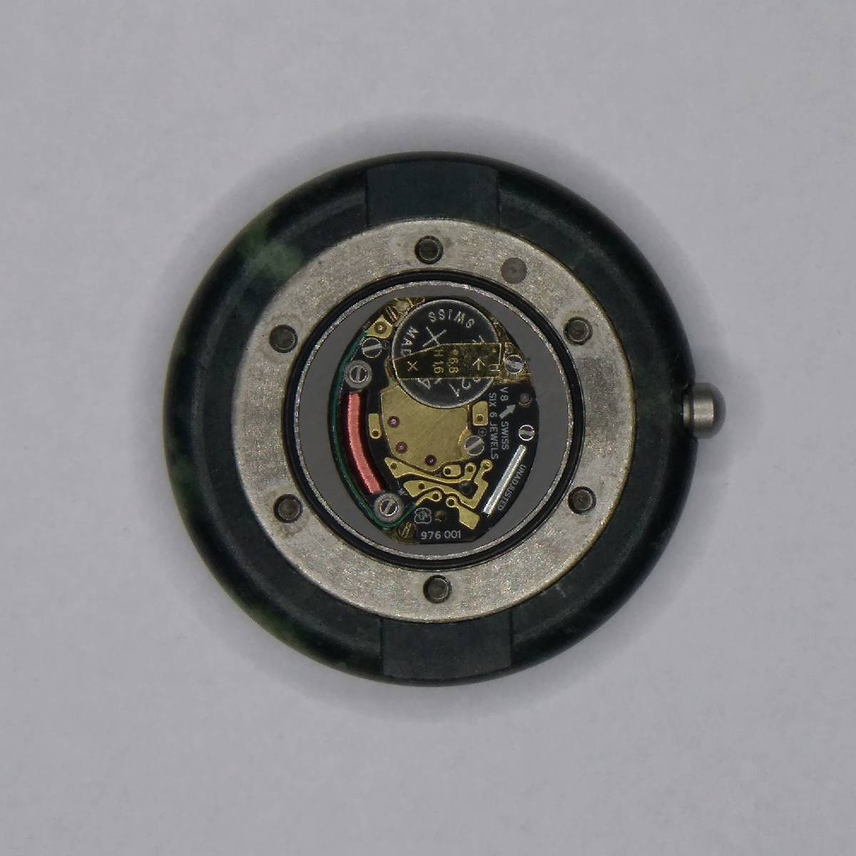 Tissot RockWatch R151 Men's size dark green inside view